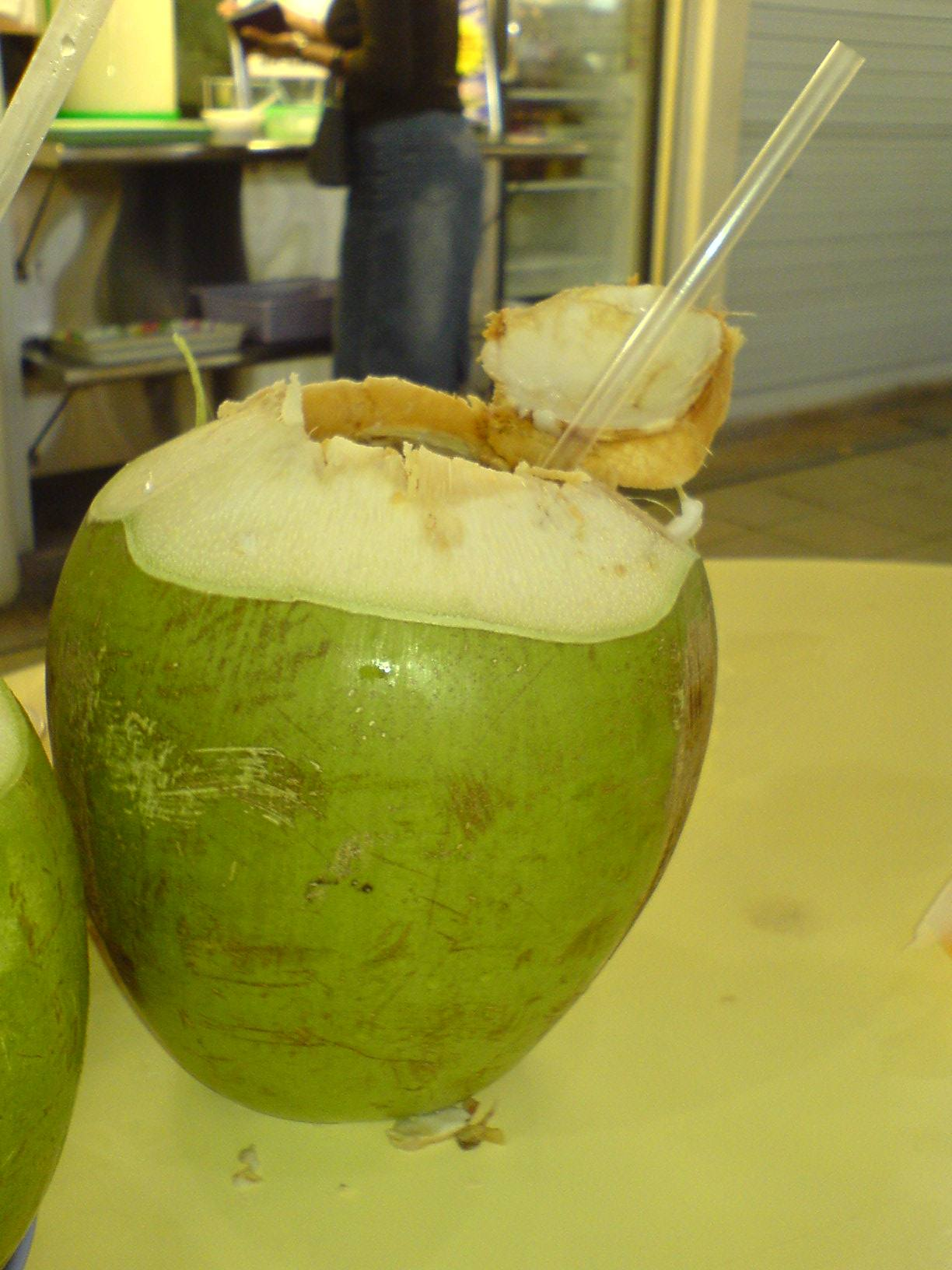 A coconut which has been stripped of its husk. The top has been hacked off and it is shown here as served in a hawker centre in Singapore, with a straw with which to drink the coconut water. In some places it is also called coconut milk. It is very sweet.